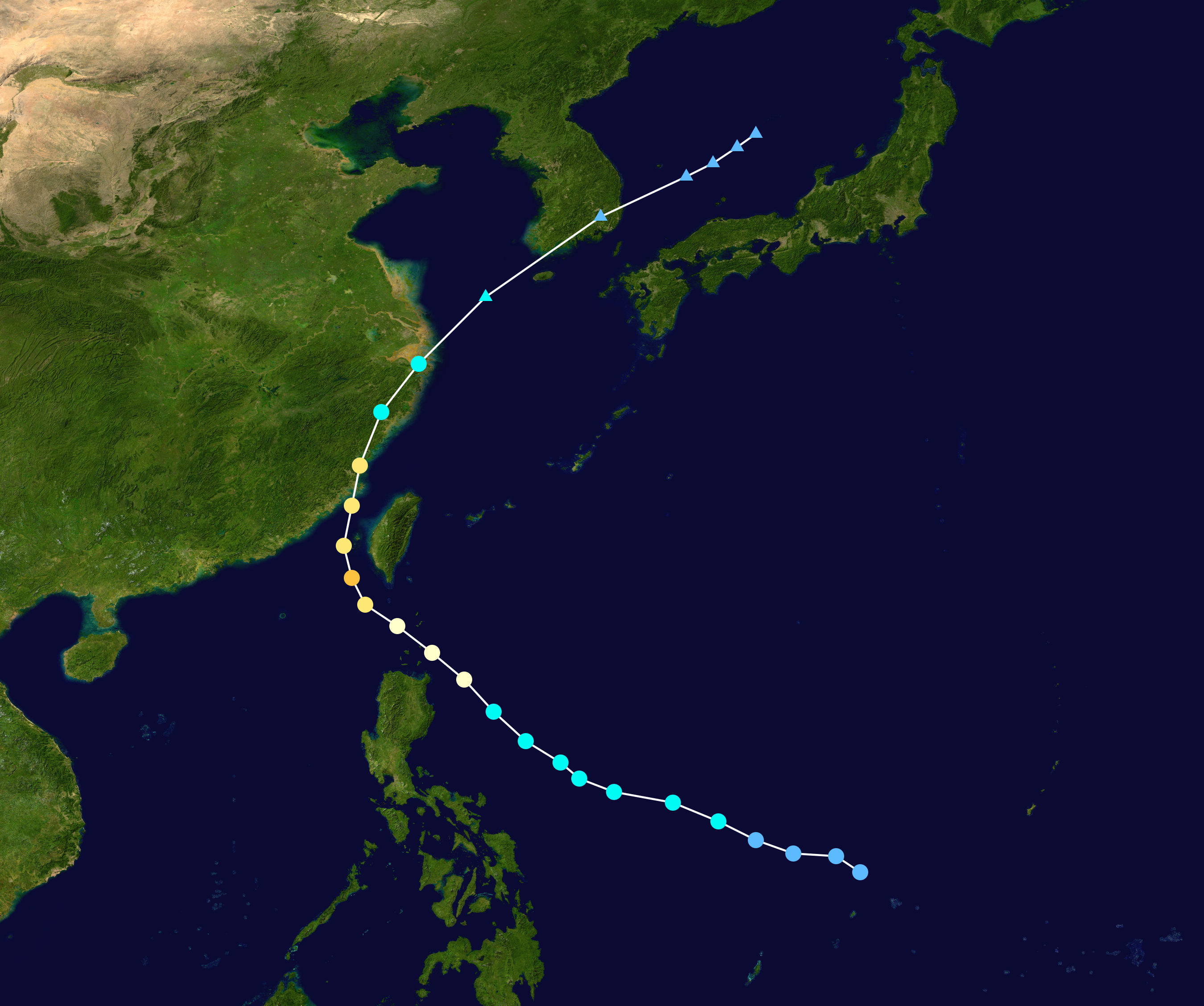 Track map of Typhoon Chebi of the 2001 Pacific typhoon season. The points show the location of the storm at 6-hour intervals. The colour represents the storm's maximum sustained wind speeds as classified in the Saffir–Simpson scale (see below), and the shape of the data points represent the nature of the storm, according to the legend below. Saffir–Simpson scale Tropical depression≤38 mph≤62 km/h Category 3111–129 mph178–208 km/h Tropical storm39–73 mph63–118 km/h Category 4130–156 mph209–251 km/h Category 174–95 mph119–153 km/h Category 5≥157 mph≥252 km/h Category 296–110 mph154–177 km/h Unknown Storm type Tropical cyclone Subtropical cyclone Extratropical cyclone / Remnant low / Tropical disturbance / Monsoon depression